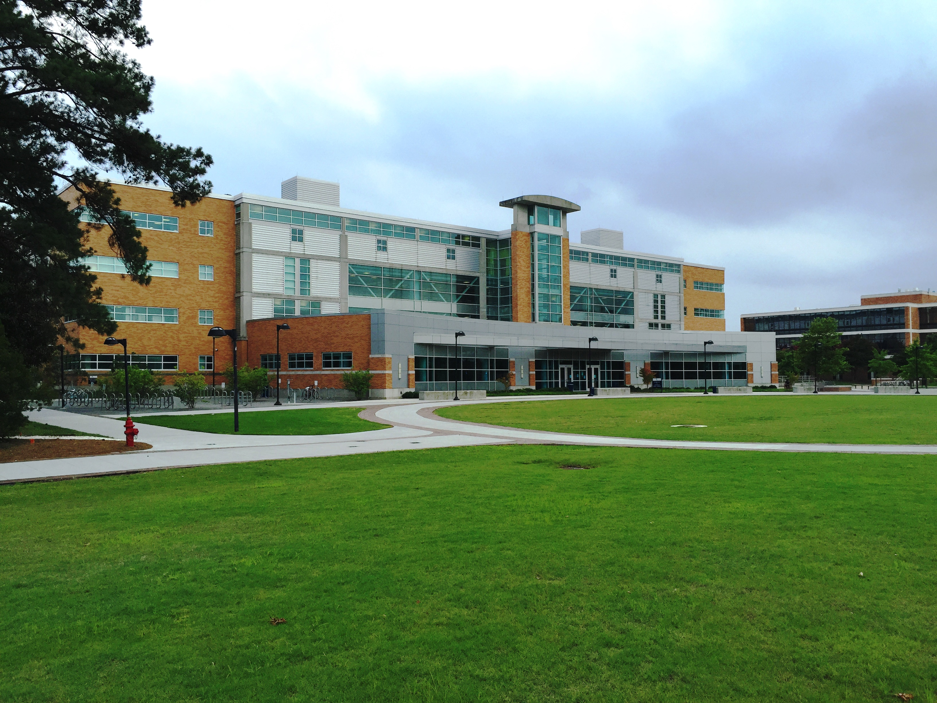 Patricia W. and J. Douglas Perry Library